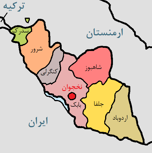 Nakhchivan Region